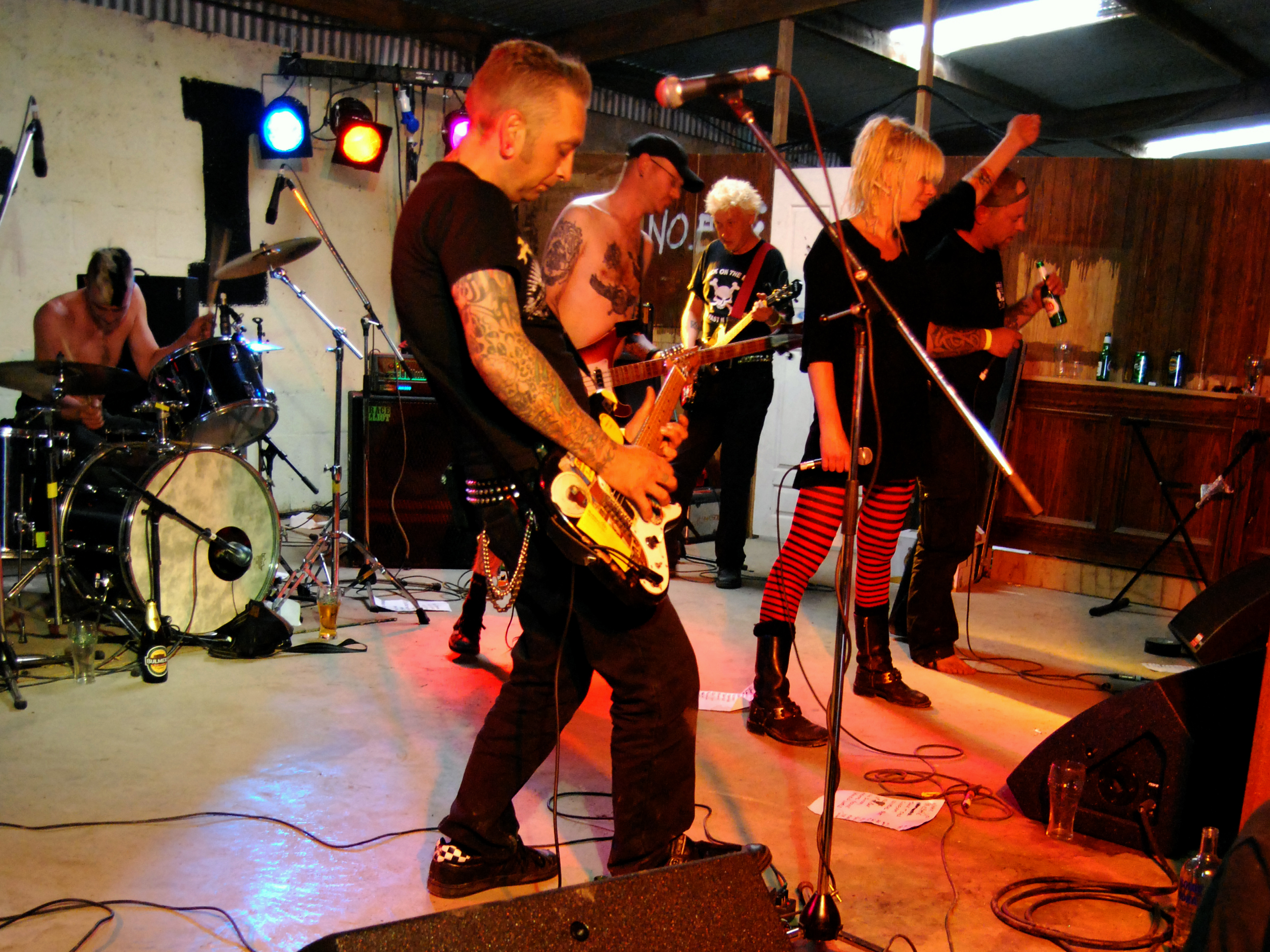 Leon, Jim, Stiff, Pierre, Esther and Robbie play their avant garde jazz set